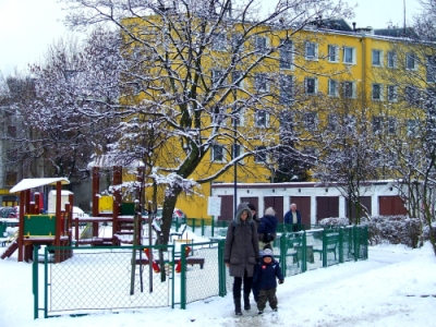 Jagiellonian University Student's Hostel "Bursa Jagiellońska" in Krakow